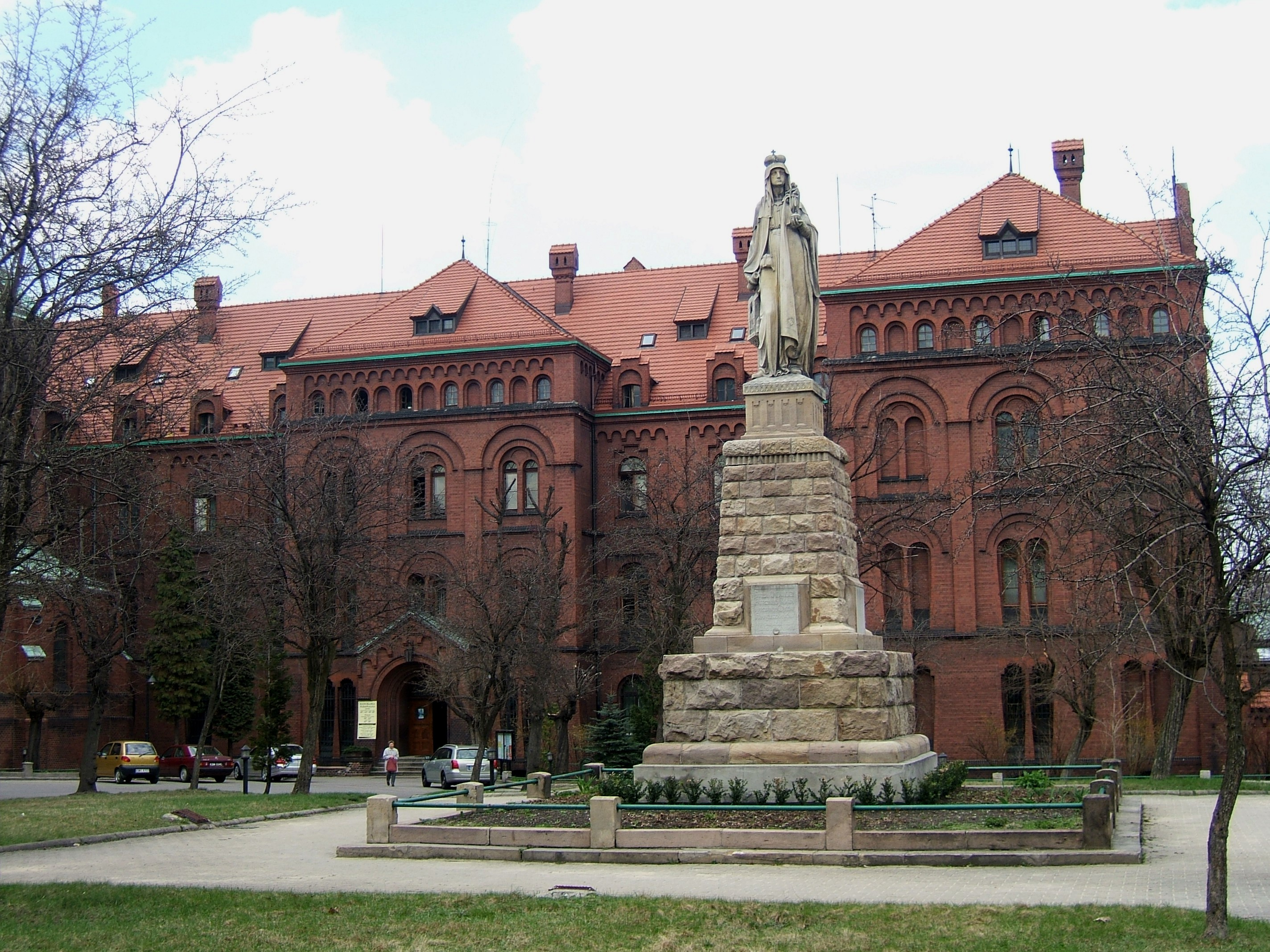 Statue of Saint Hedwig of Silesia, 1912 by sculptor Bruno Tschötschel, in front of the Franciscan monastery (built 1905-1908) in Panewniki, today a district of Katowice